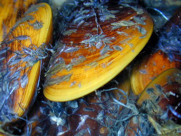 Mussels of species Bathymodiolus childressi (Bivaliva : Pteriomorpha : Mytiloida : Mytiloidea : Mytilidae)